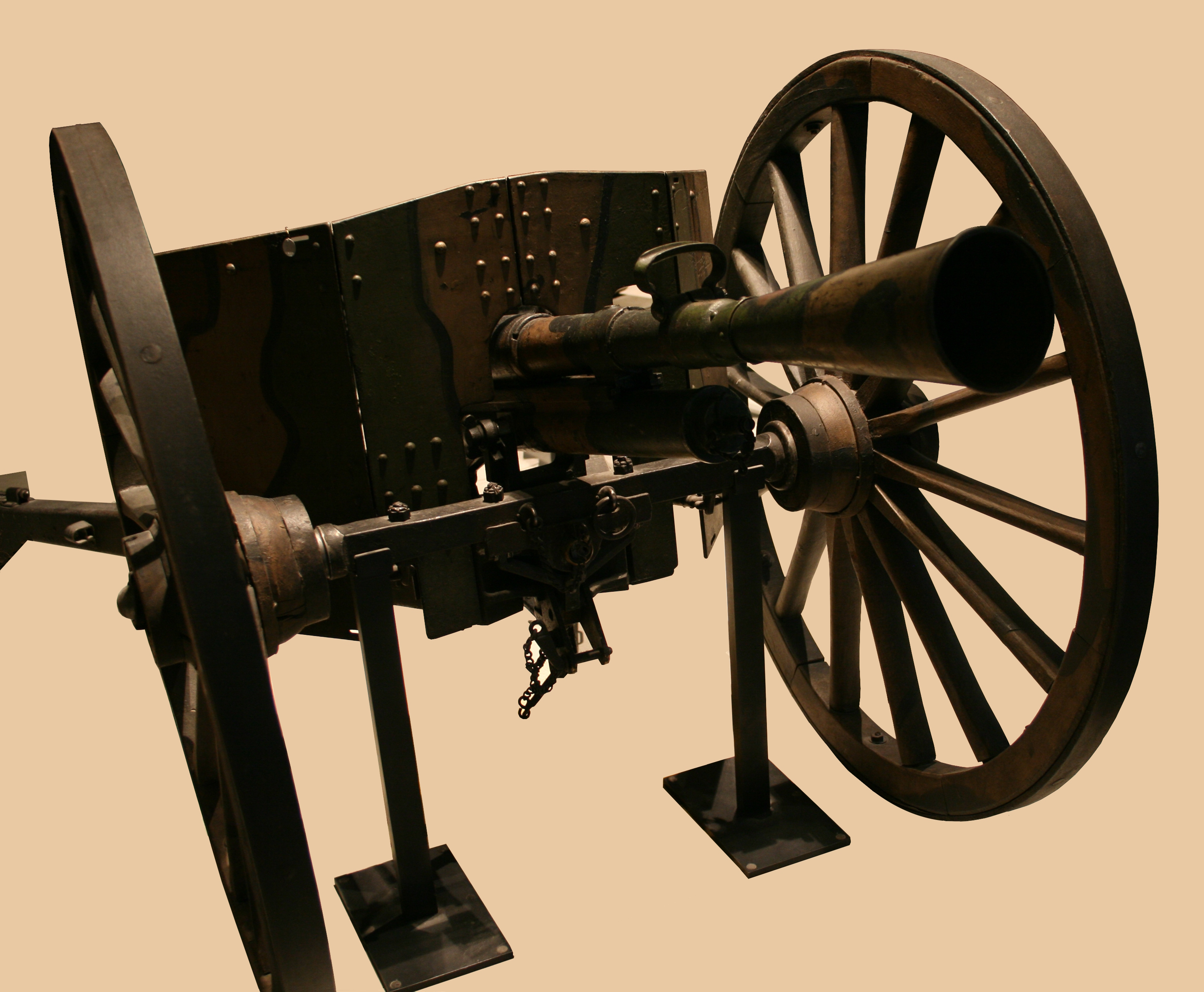 37 mm TRP Mle 1916 rapid-fire infantry cannon (weight: 110 Kg, and 164 Kg with wheels, initial speed: 402 m / s, effective range: 1500 m), rifled soul and brake, with protection plate at the level of the wheels, mounted on a steel carriage, currently kept in the Arsenal gallery at the army museum of the Hôtel de Invalides in Paris.